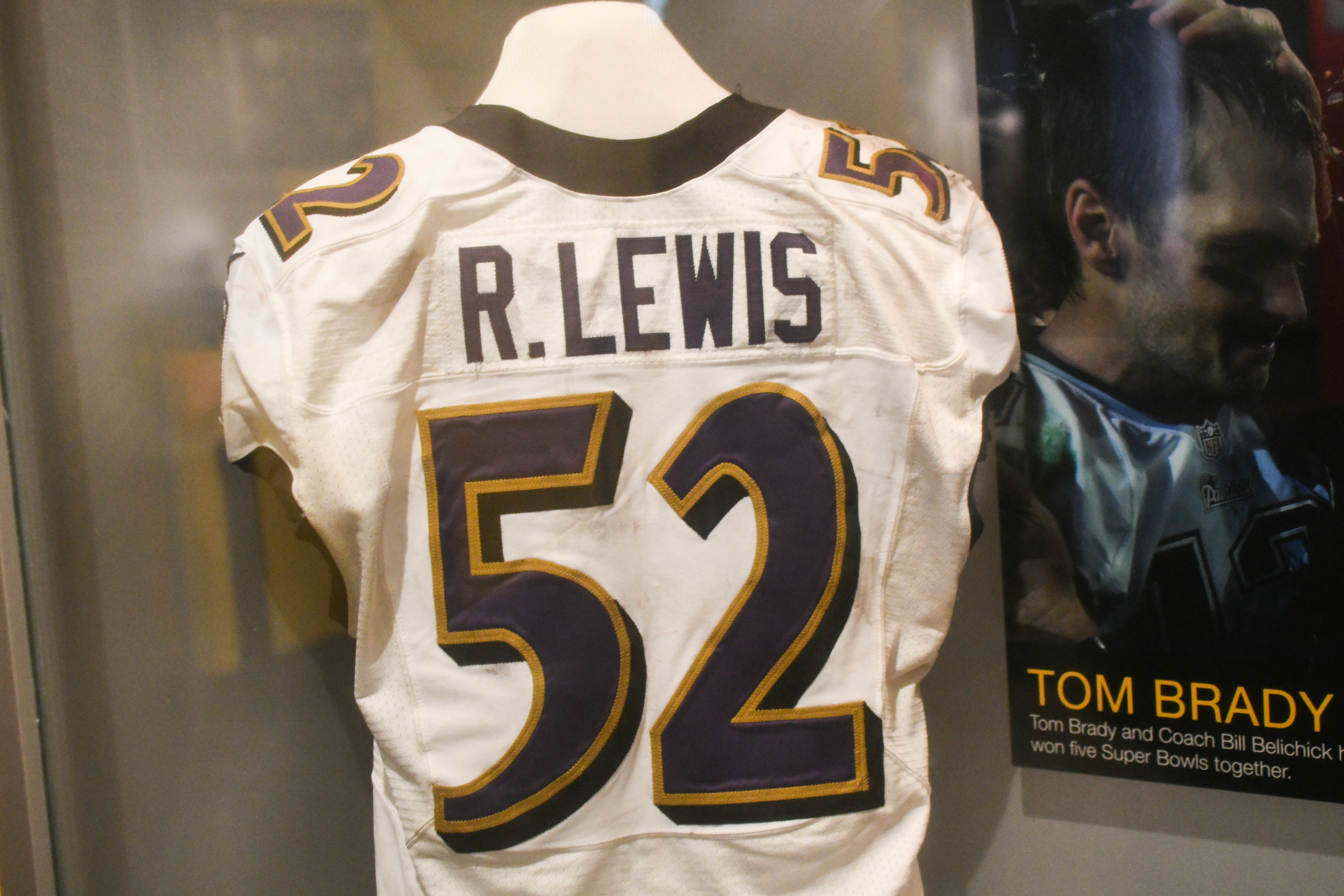 Ray Lewis' #52 jersey (Ravens) at the Pro Football Hall of Fame